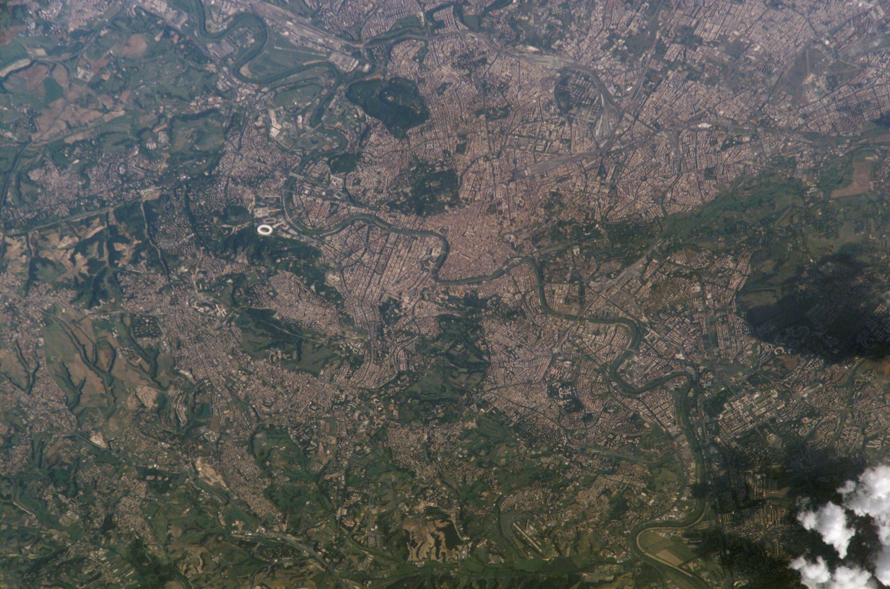 Astronaut Photo of Rome, Italy taken from the International Space Station (ISS) during Expedition 5 on August 24, 2002.